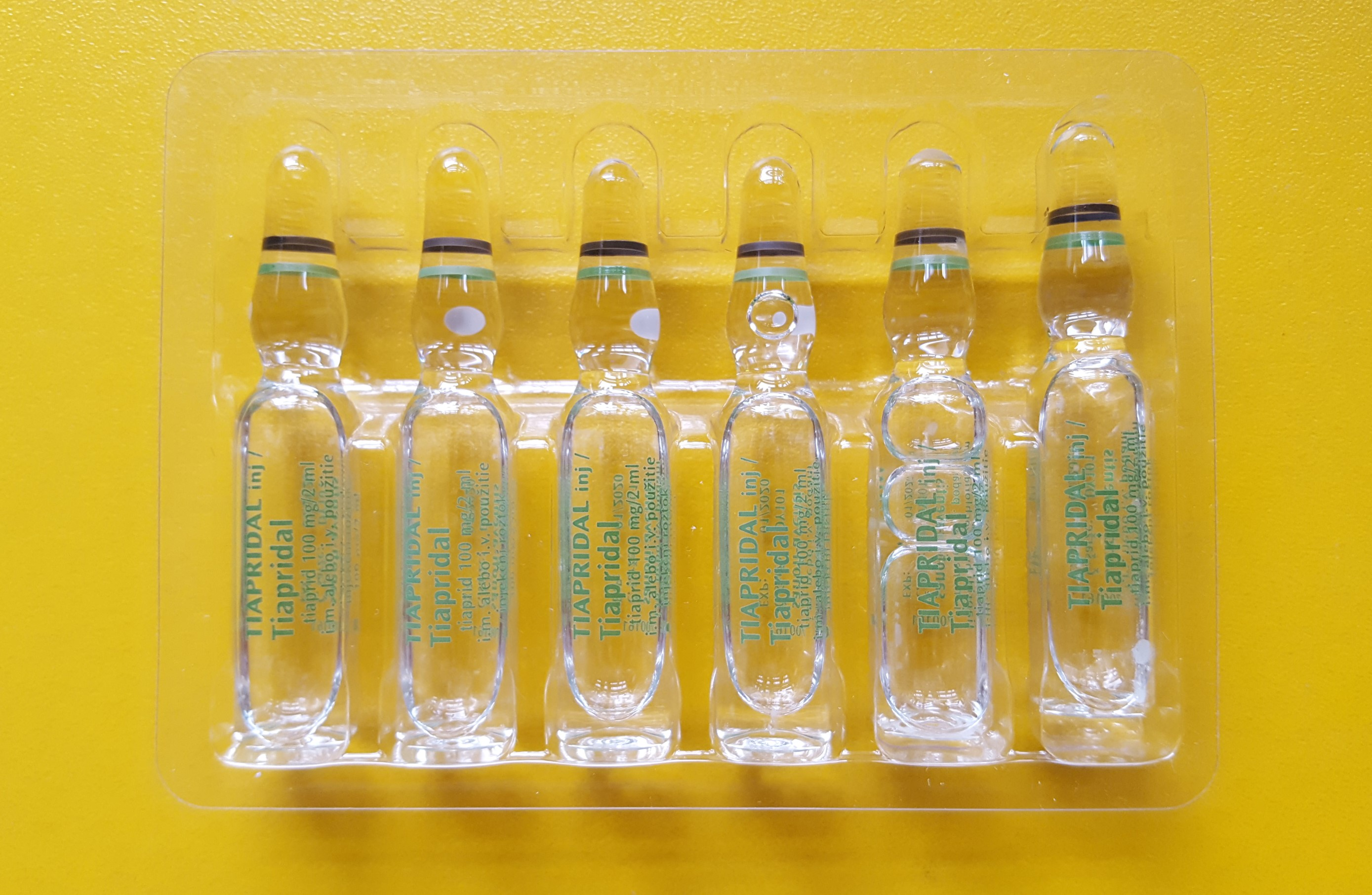 Tiapridal 100mg/2ml vials